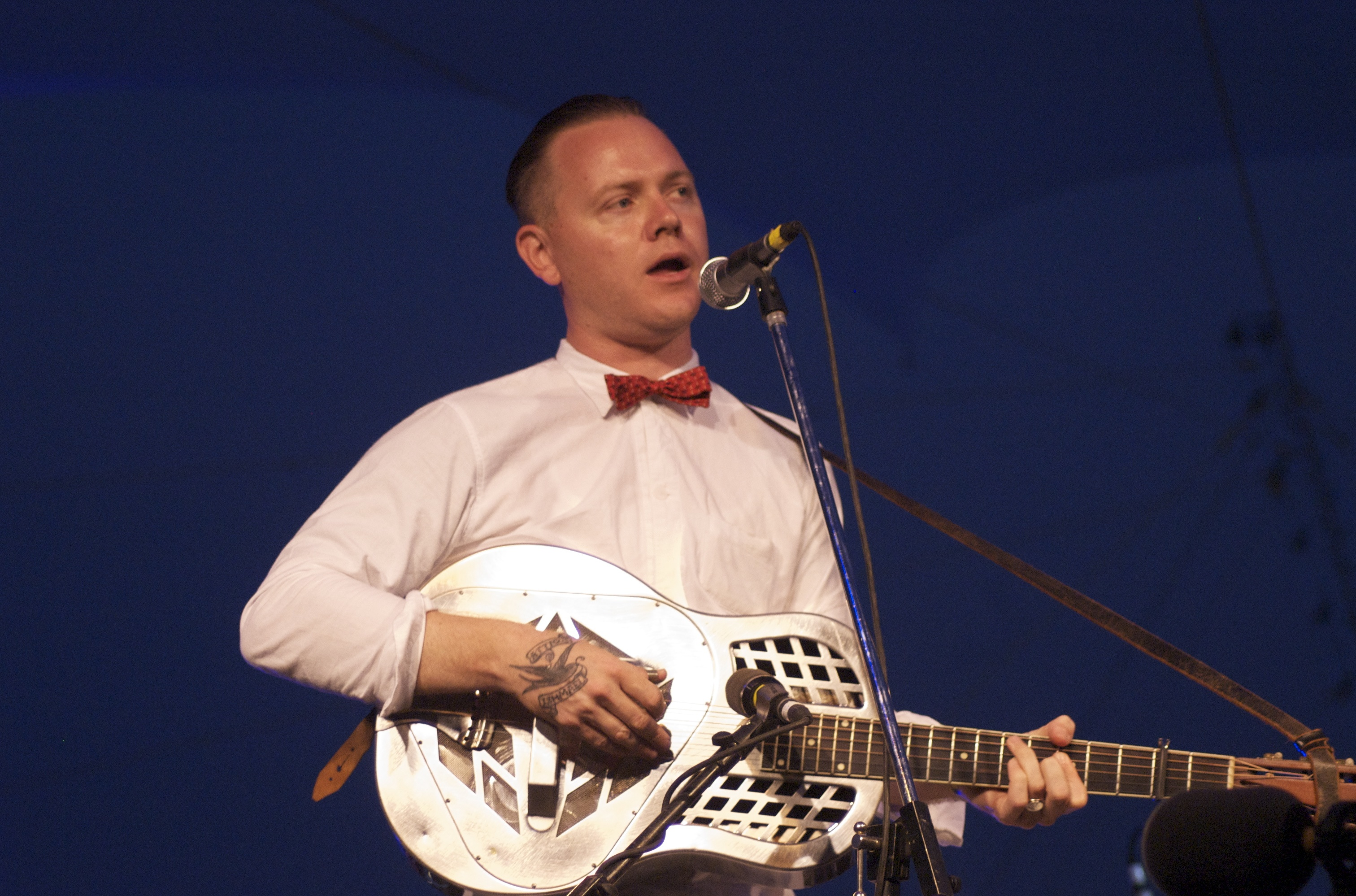 C.W. Stoneking on the mountain view stage